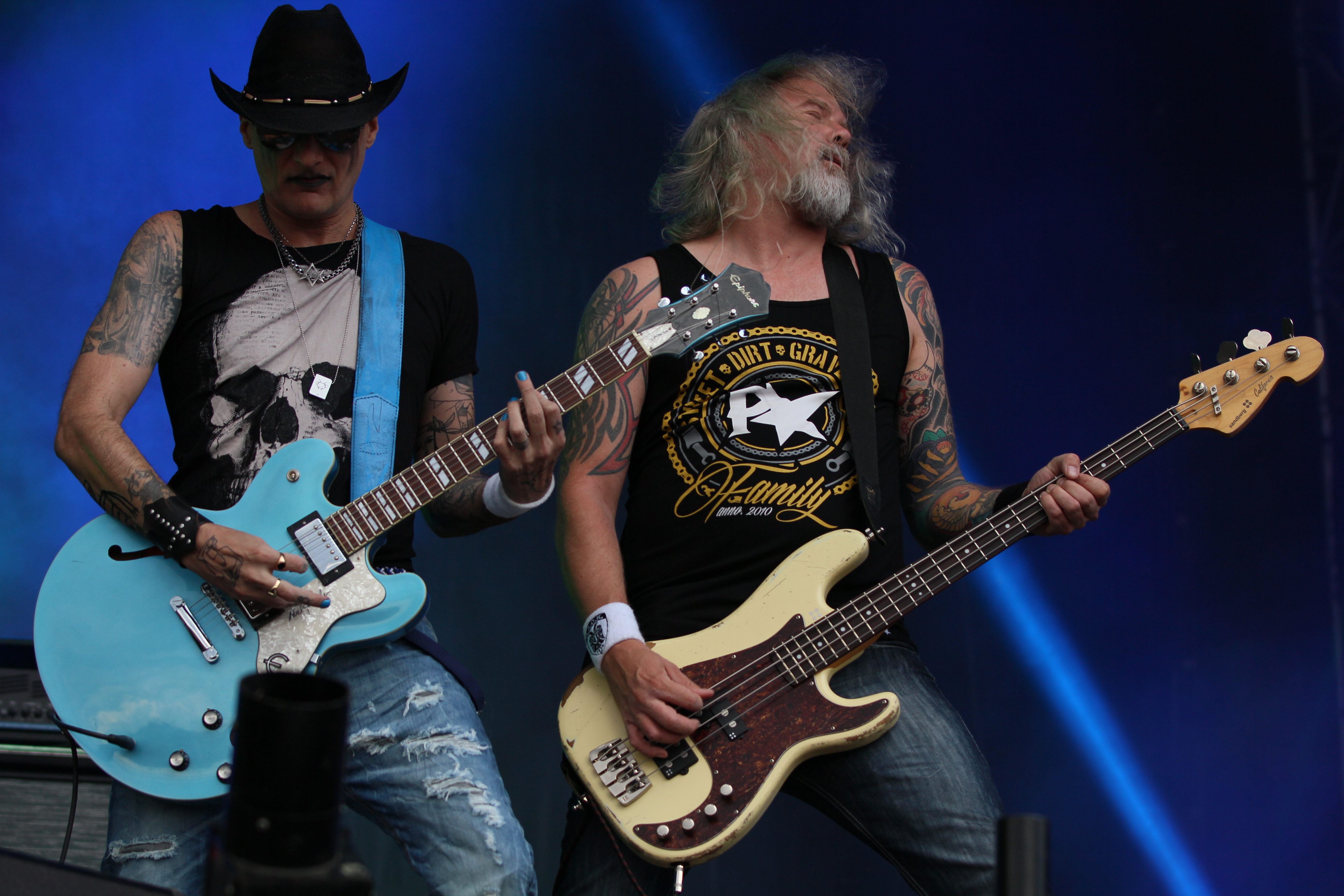 The Swedish gothic metal band Tiamat at the Rockharz Open Air 2014 in Ballenstedt/Germany